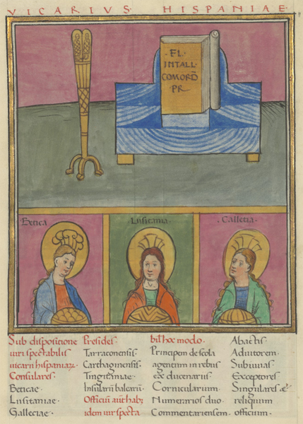 Notitia Dignitatum: Side o.t. Vicarius Hispaniae (Western Imperium) taken from the Parisian manuscript, it shows personifications of the three Consular Provinces he controls: Baetica, Lusitania, and Gallaecia (5th century).